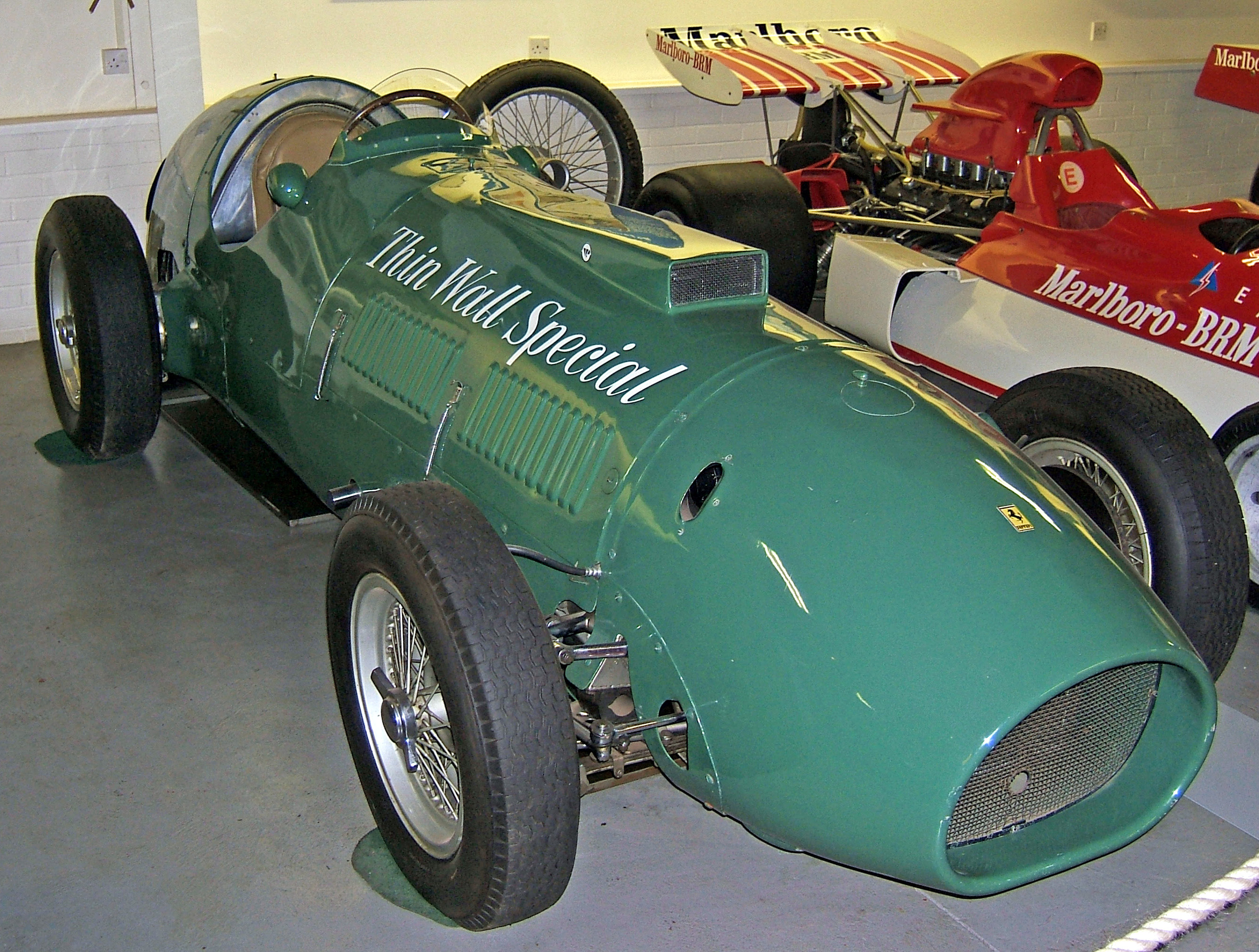 The fourth Thinwall Special. Tony Vandervell's modified Ferrari 375, used between 1952 and 1954. In the Donington Collection museum, Leics., UK.